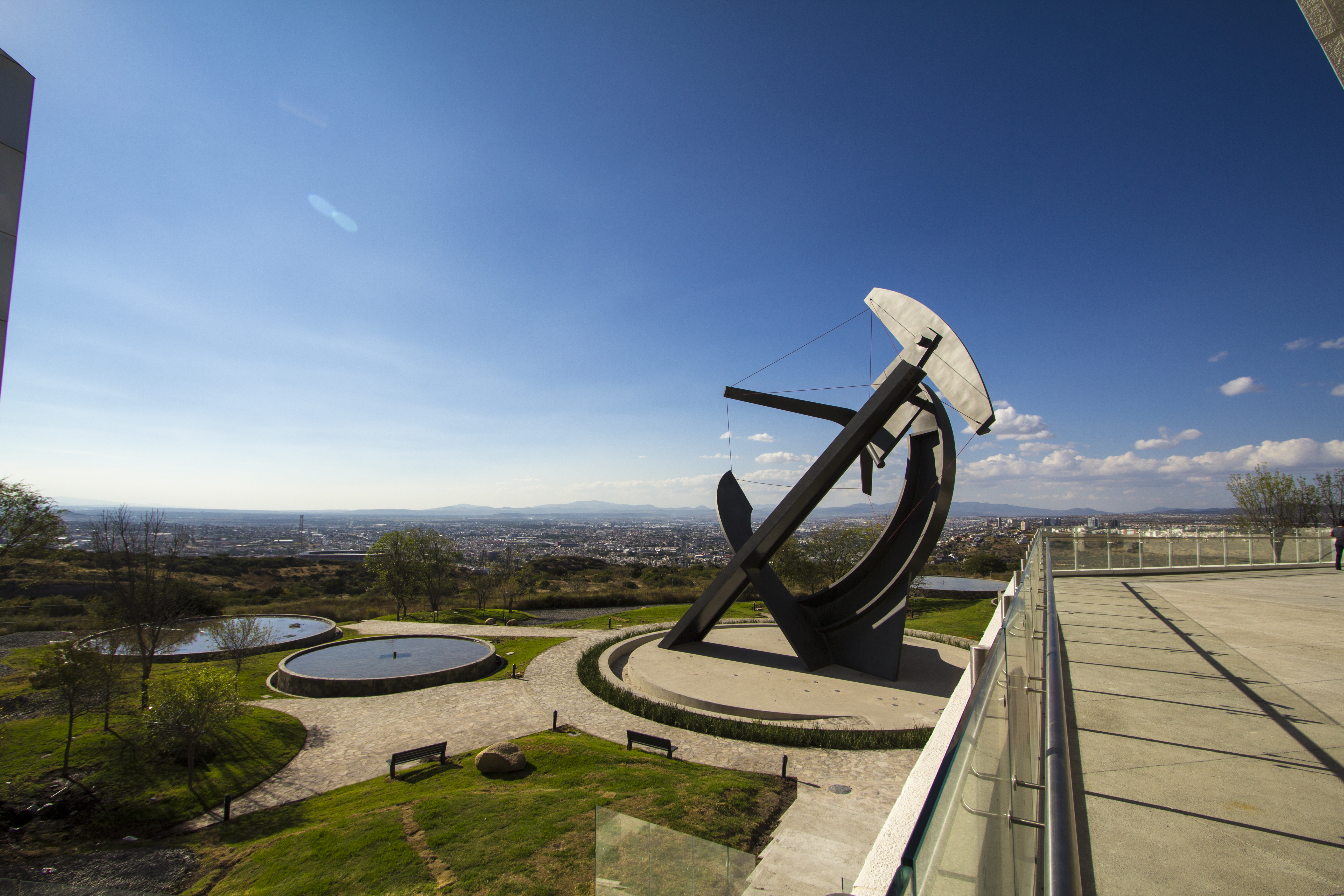 Santiago de Querétaro